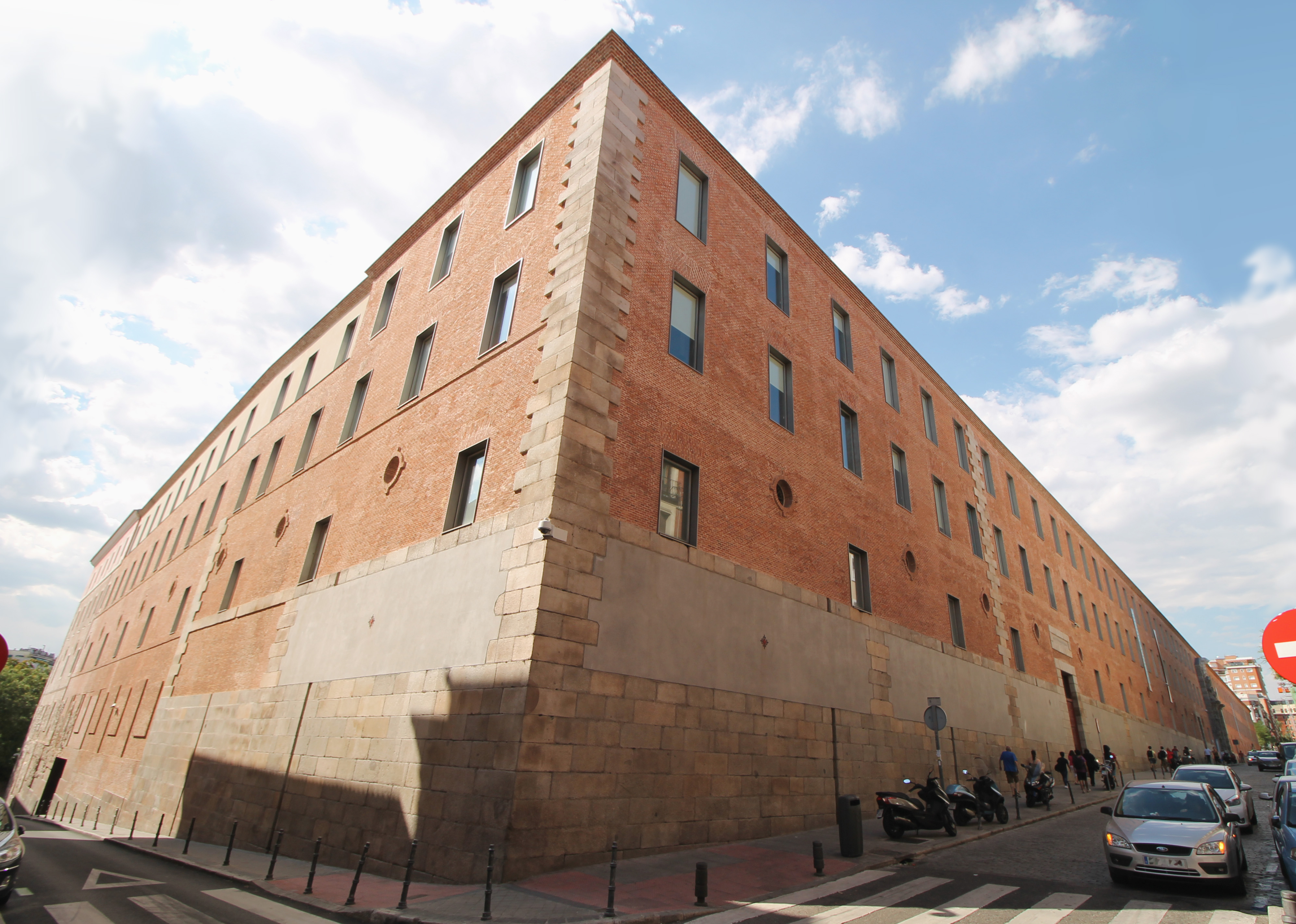 View of Cuartel del Conde-Duque in Madrid (Spain) from the south angle.